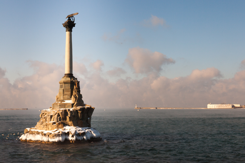 Monument to Wrecked Ships